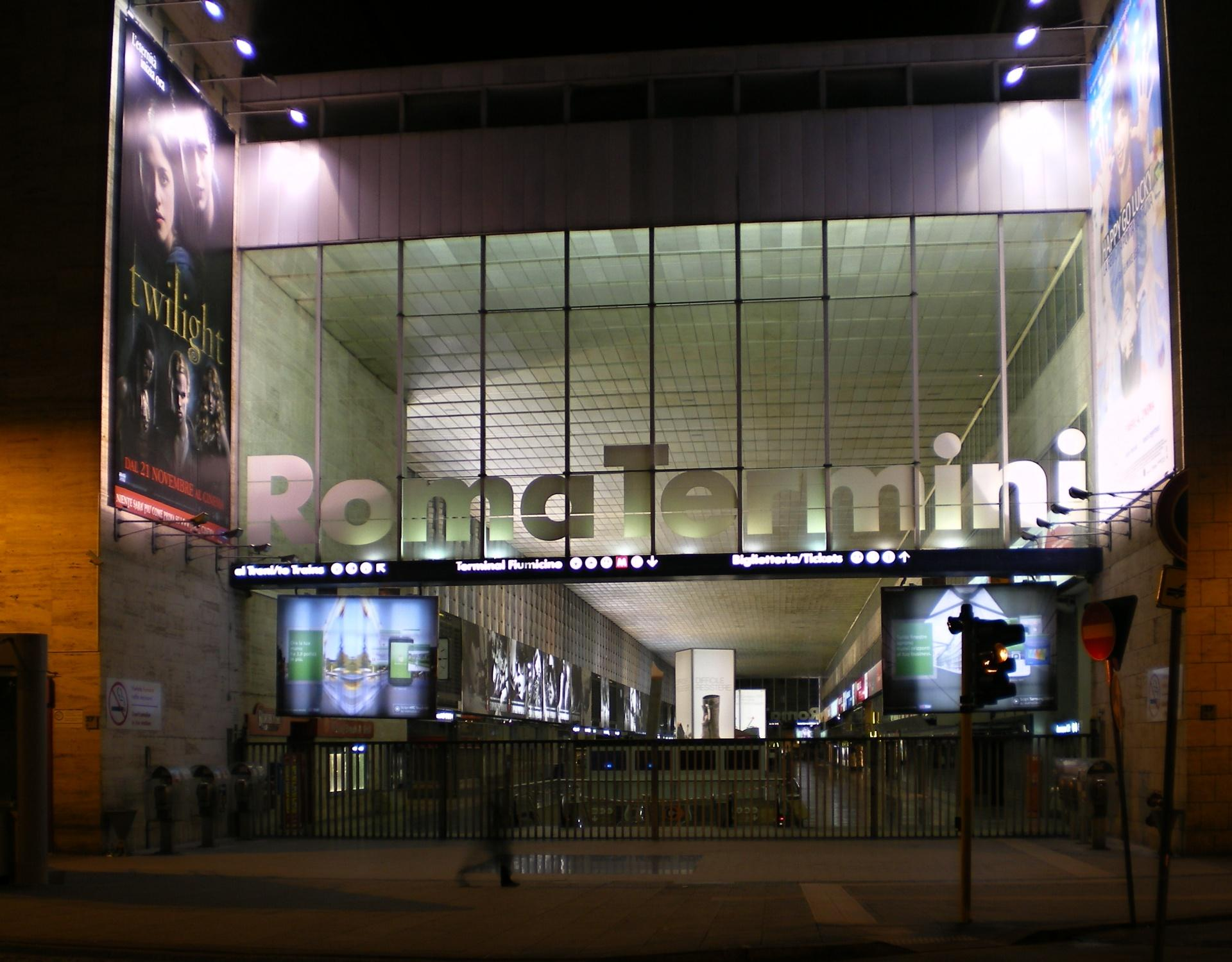 Rome, Italy. Roma Termini at night.